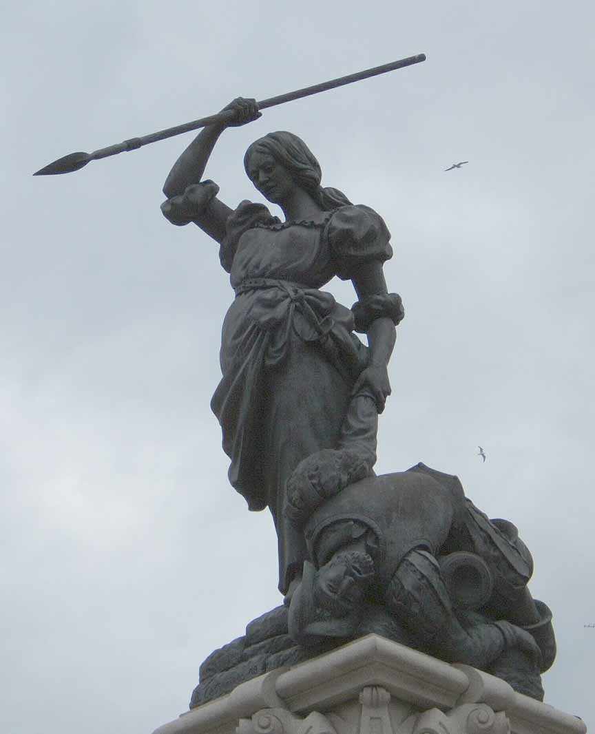 Standbeeld María Pita, Plaza María Pita, A Coruña Eigen werk, dec. 2006